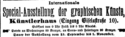 International Expo of graphic arts in Vienna 1883